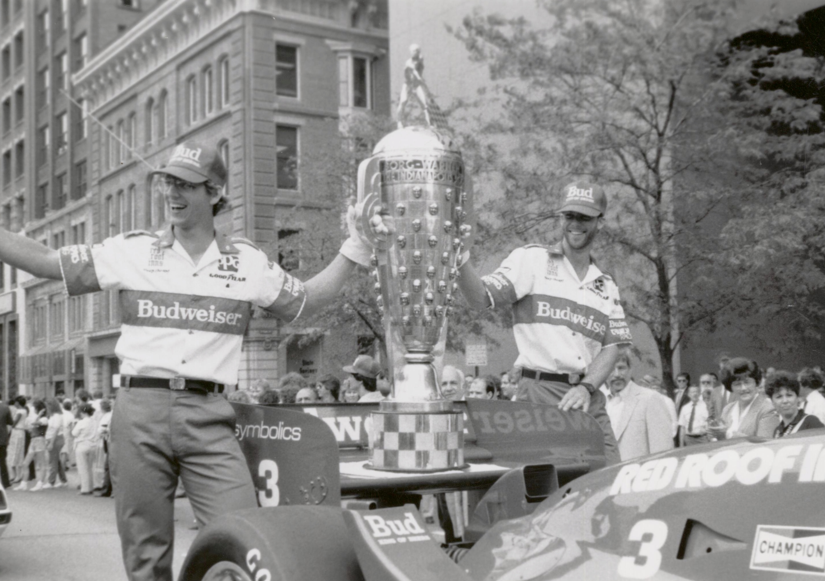 Truesports racing team members holding the Borg Warner Trophy in a parade in 1986 celebrating their victory in the 1986 Indianapolis 500.